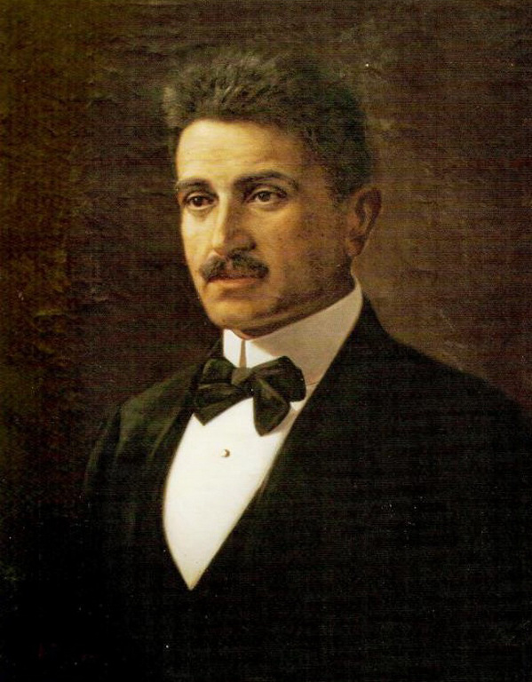 Portrait of Greek writer and translator Kontsantinos Theotokis (1872-1923)